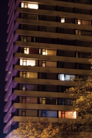 The picture shows the building at the Hans-Böckler-Platz 7 in Mülheim an der Ruhr.